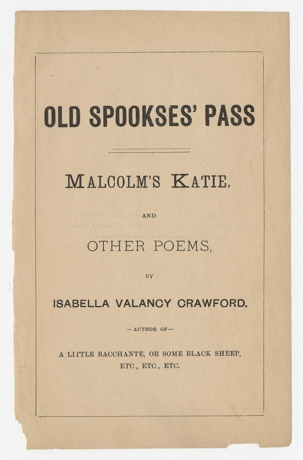 The cover of Isabella Valancy Crawford's book, Old Spookses' Pass, Malcolm's Katie and Other Poems, published 1884.